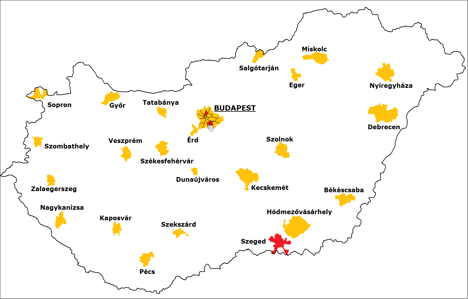 Elected mayors in the Budapest districts and in the largest Hungarian cities by parties at the 2010 Hungarian local government's election ██ = Fidesz (41) ██ = MSZP (4) ██ = Candidate by a local NGO (1)